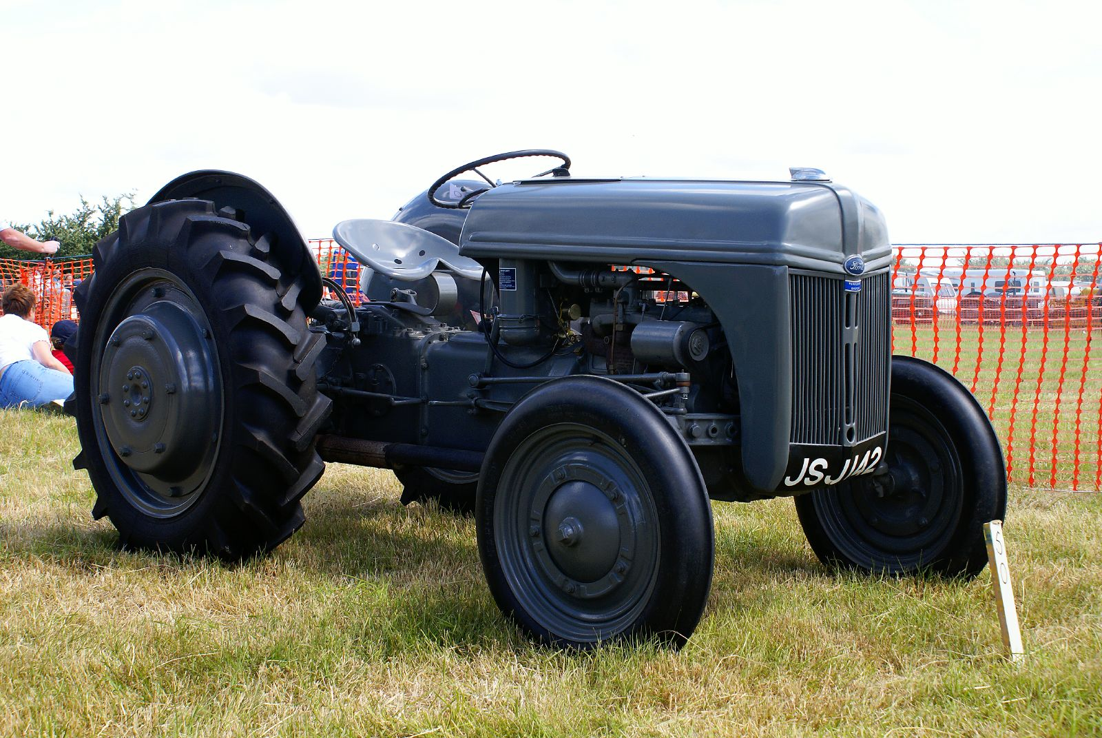 Rougham air strip, Wings Wheels and Steam Country Fair. Bury St Edmunds Suffolk